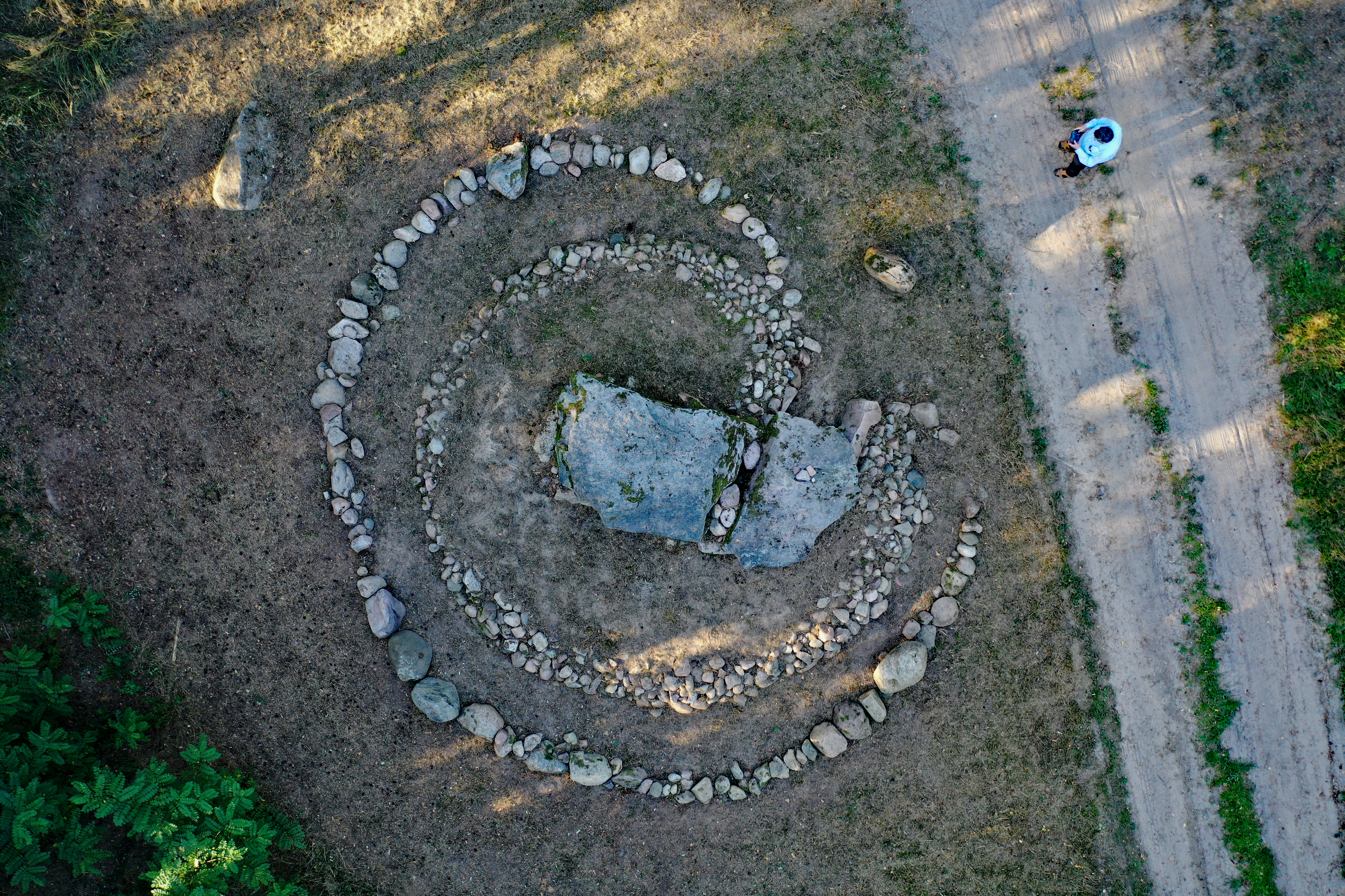 Megalithic in Altmark (Saxony-Anhalt, Germany) Lüdelsen 3